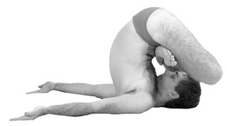 Padma Halásana - Inverted position